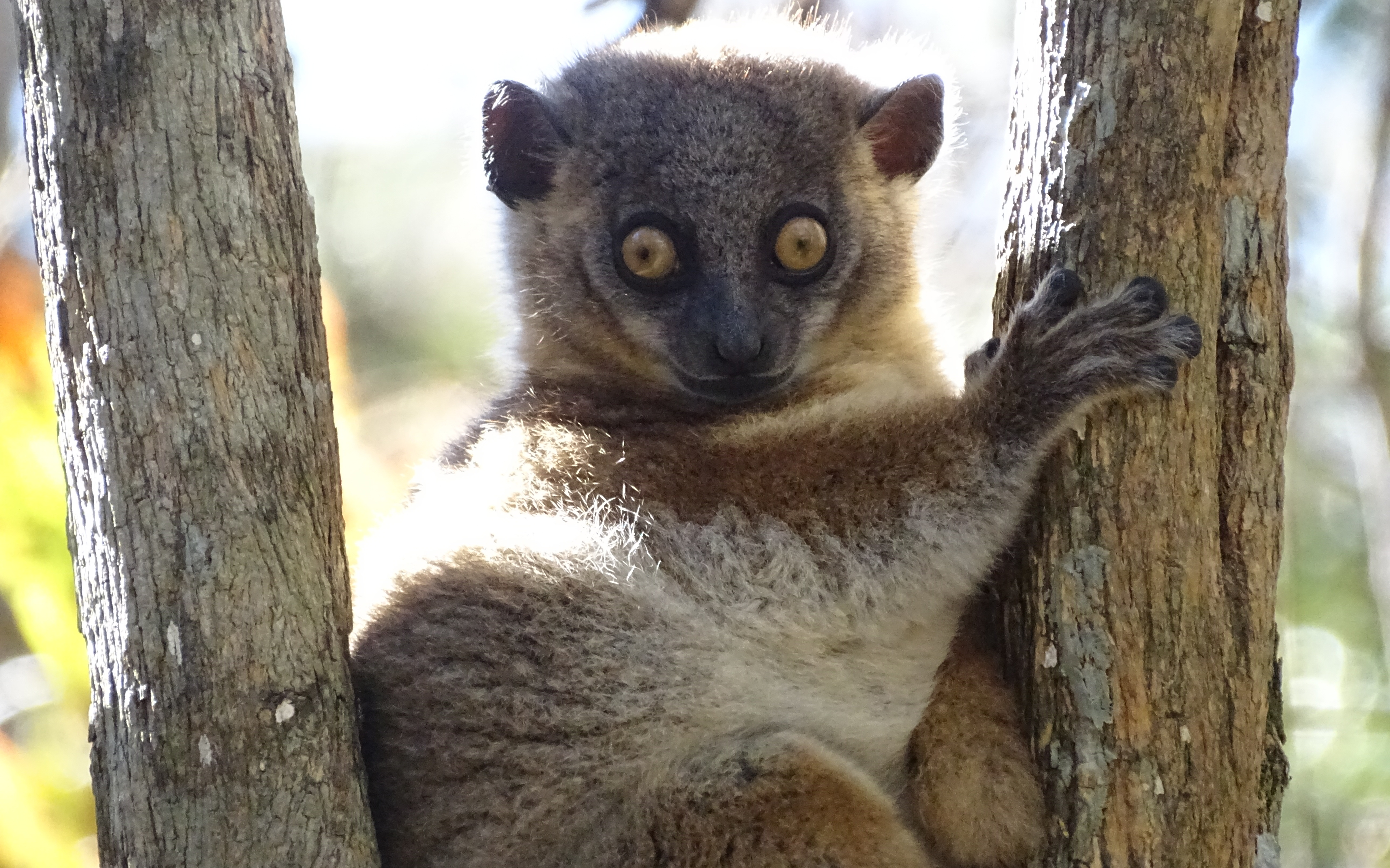 Hubbard's sportive lemur at Zombitse-Vohibasia National Park